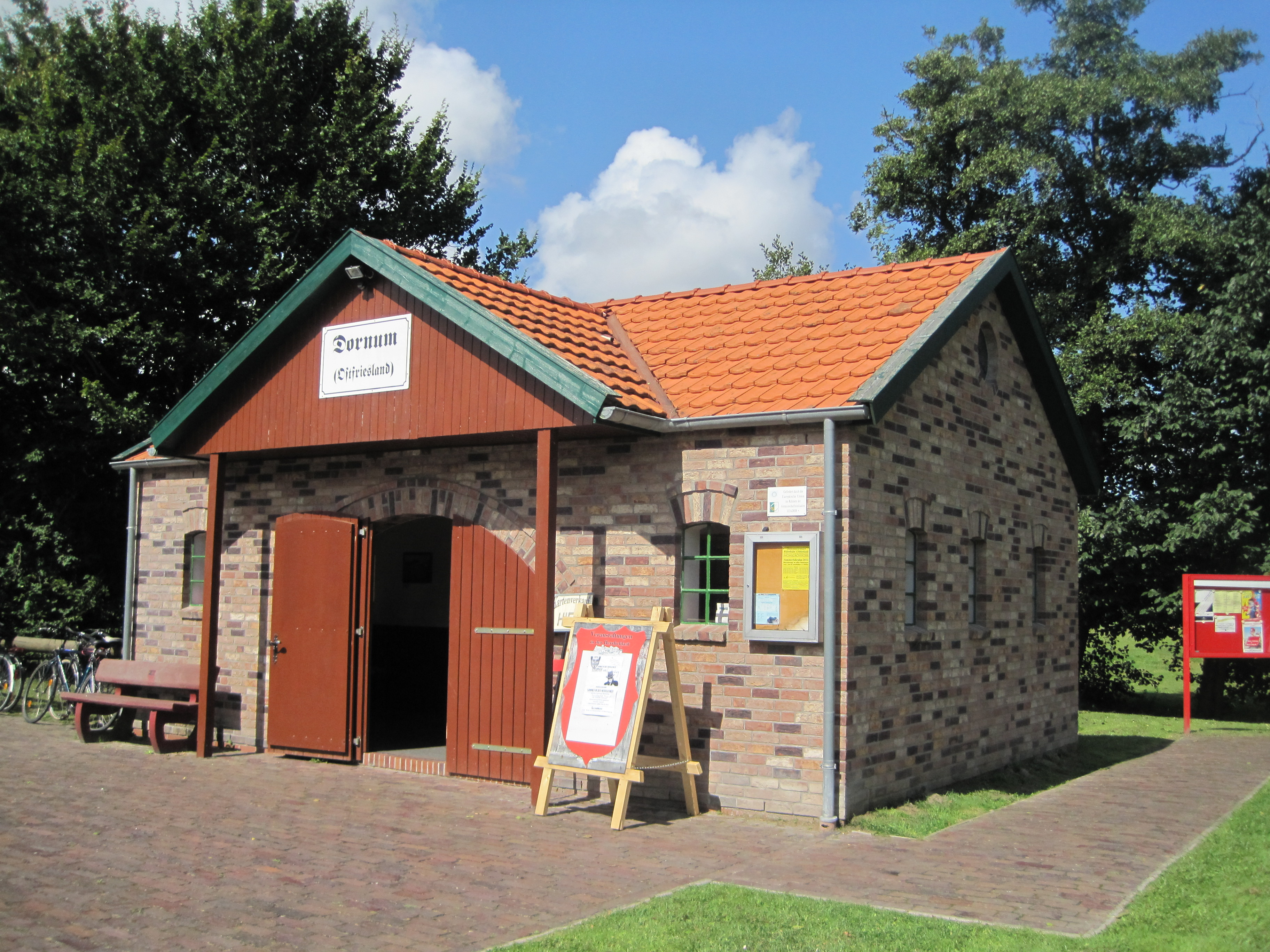 Train station Dornum (Ostfriesland), Dornum, Germany check usage